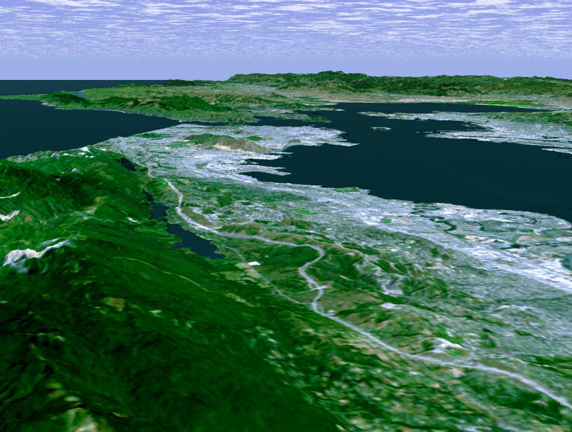 3-D perspective image of the San Francisco Peninsula from NASA's Shuttle Radar Topography Mission (SRTM)